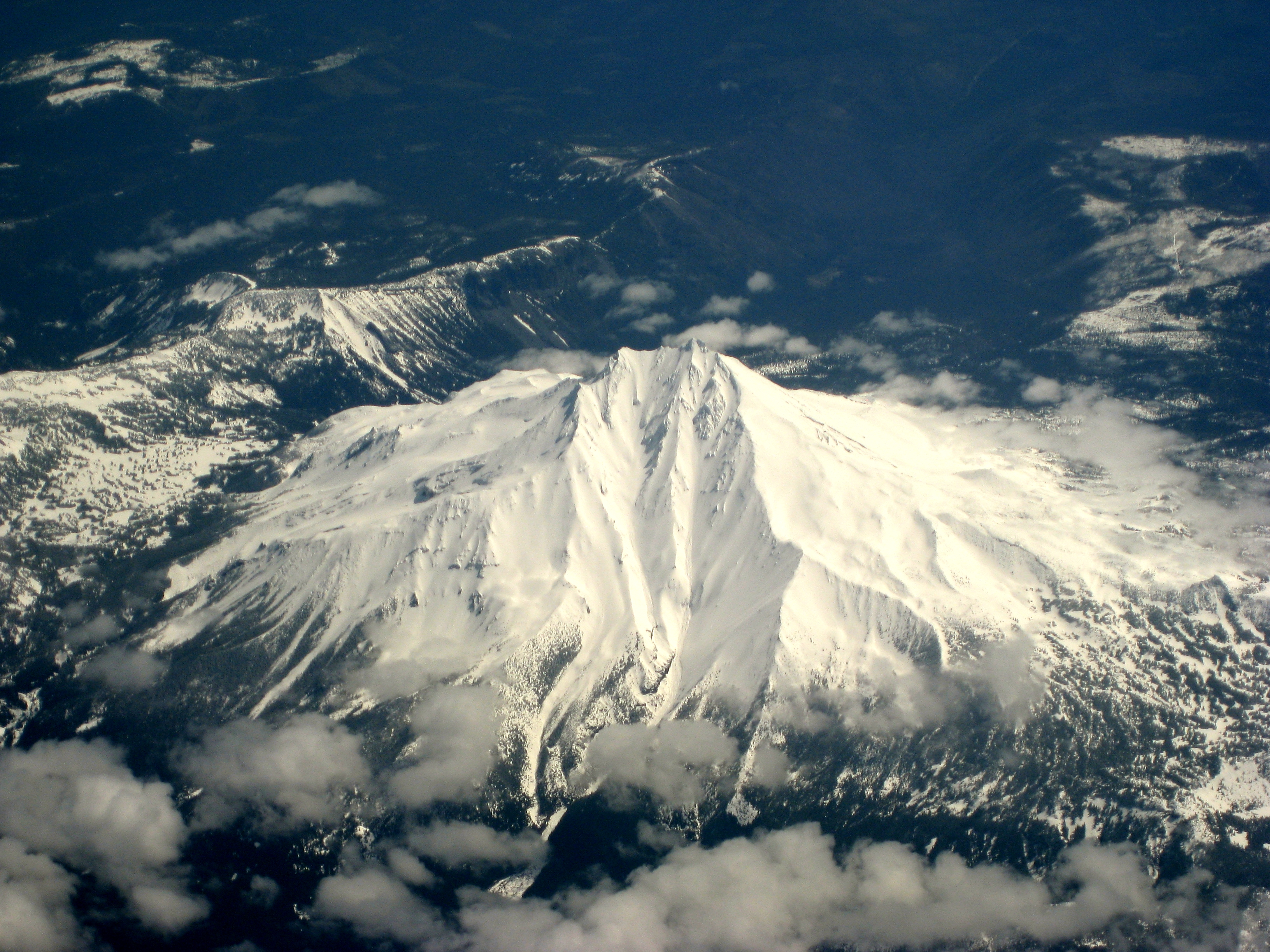 Mount Jefferson (stratovolcano in the Cascade Volcanic Arc).